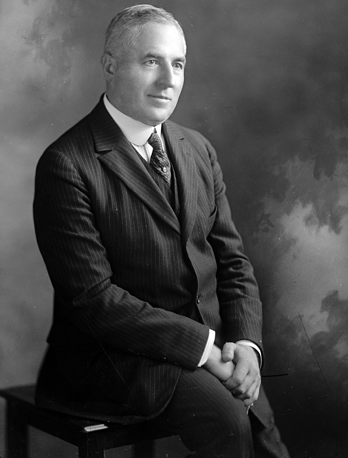 T. Frank Appleby, US Representative from New Jersey